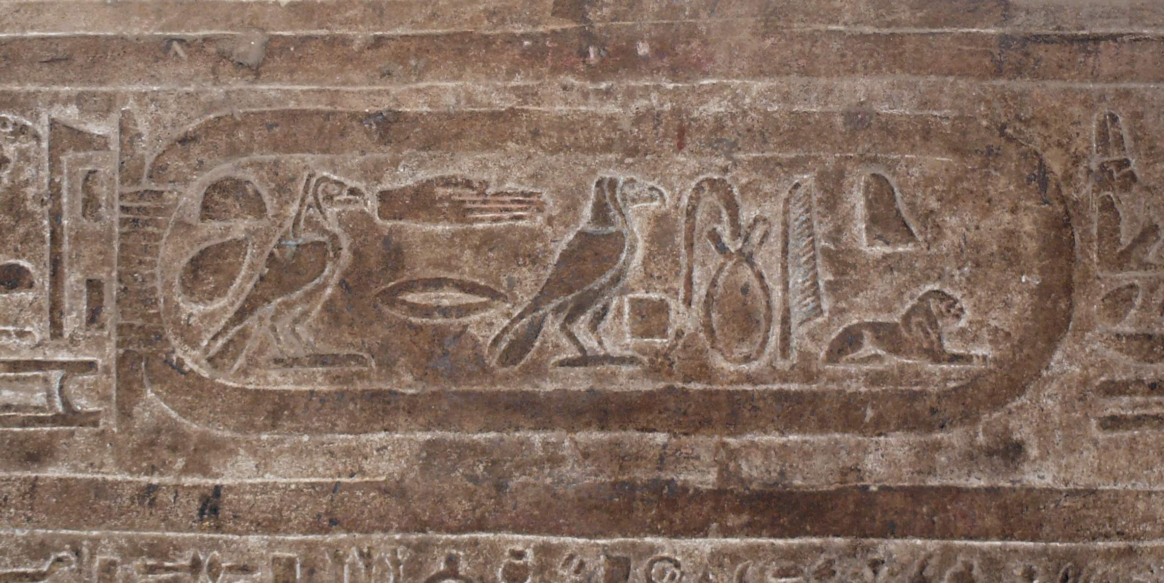 Cartouche in the Temple of Horus at Edfu. The inscribed name is Cleopatra.